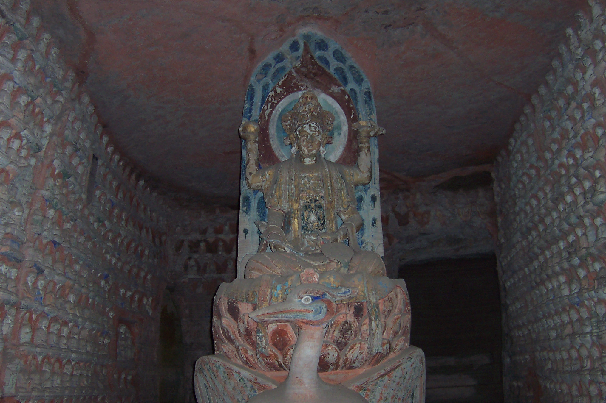 Dazu rock carvings, beishan buddhas